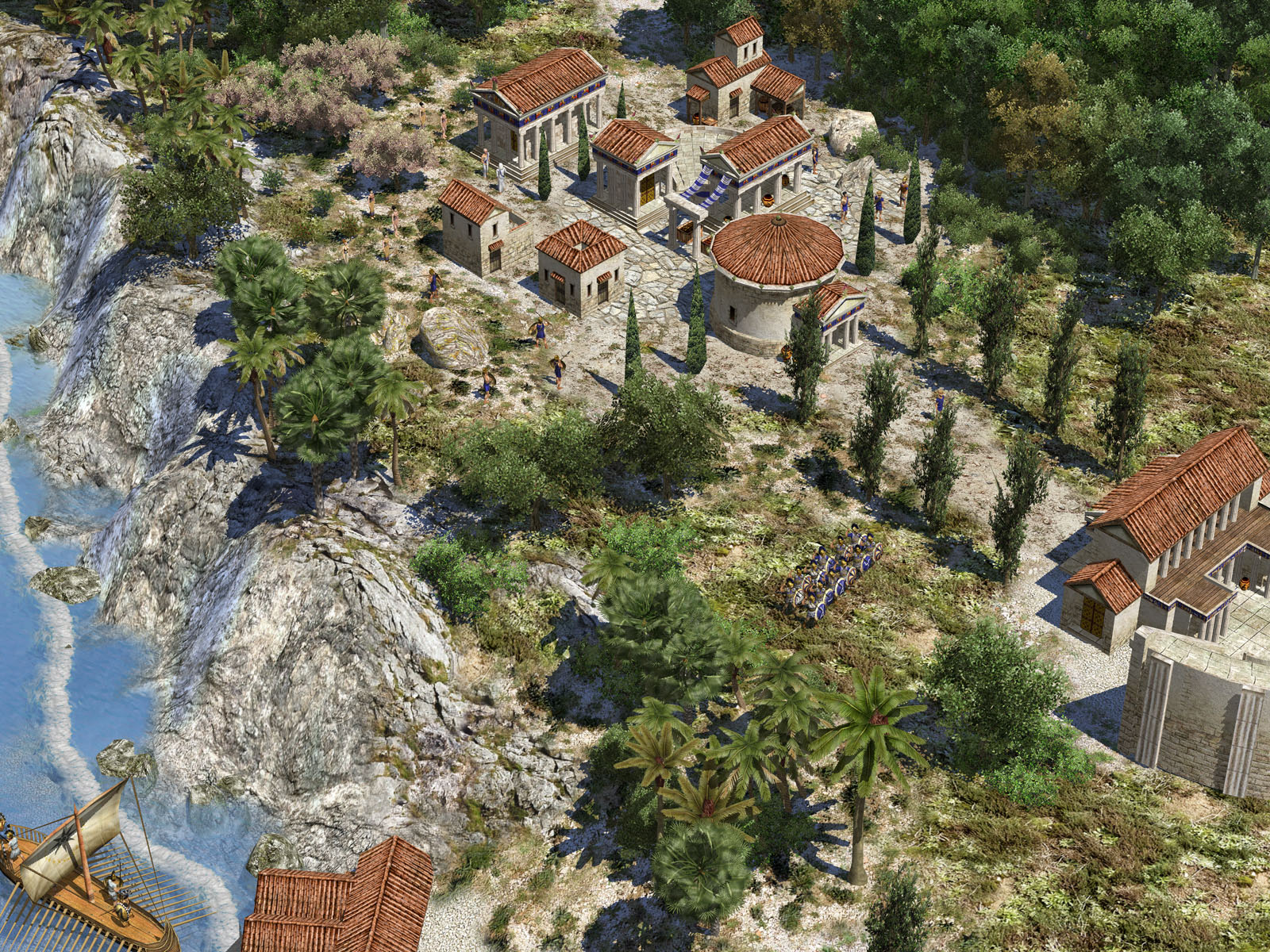 A screenshot of the free game, 0 A.D..